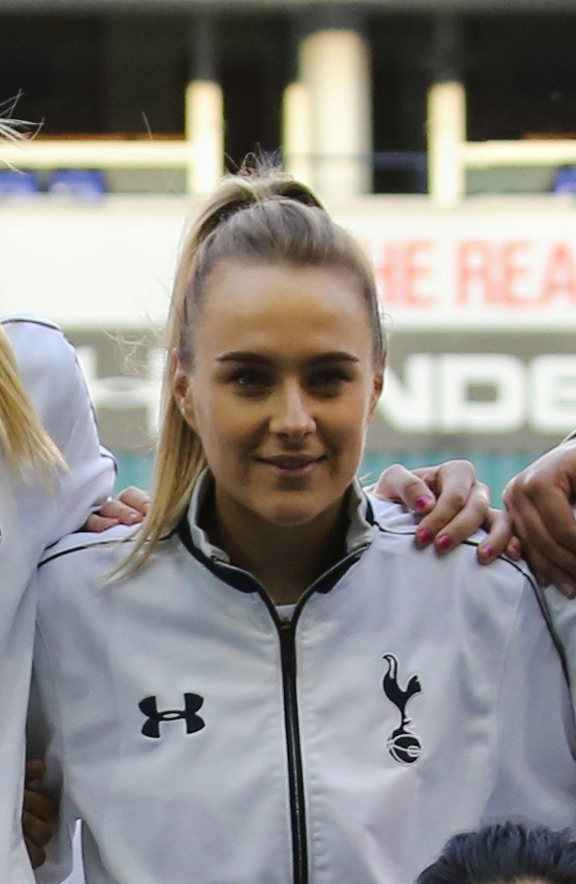 Tottenham Hotspur LFC v West Ham United LFC, 19 April 2017